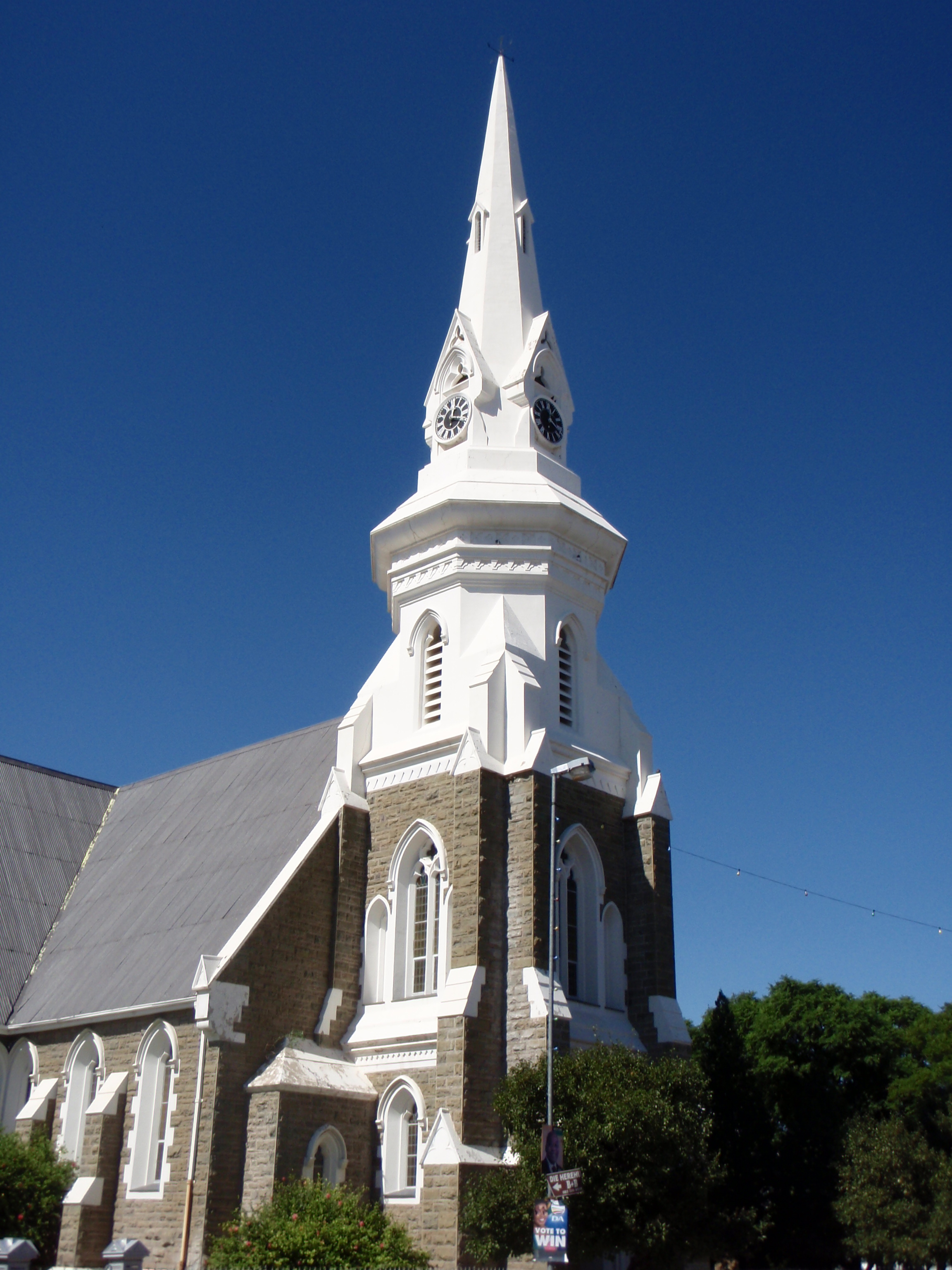 Neo-Gothic Dutch Reformed Mother Church, built in 1892 This media shows a South African Protected Site with SAHRA file reference 9/2/010/0002.